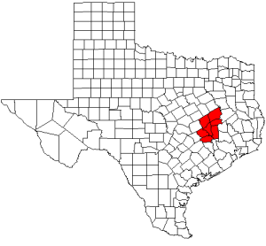 Map of Texas highlighting counties served by the Brazos Valley Council of Governments; created by User:Acntx.